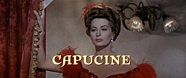 This image is a screenshot from a public domain trailer for the 1960 film, North to Alaska . Trailers for movies released before 1964 are in the Public Domain because they were never separately copyrighted.